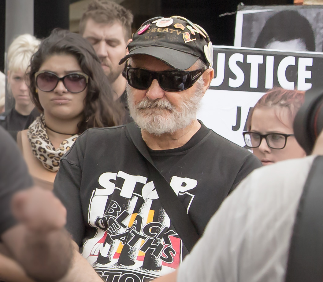 Indigenous Activist, Ray Jackson, attending a protest rally about the death of Aboriginal boy, TJ Hickey. Location: Regent Street, Redfern, NSW, Australia.